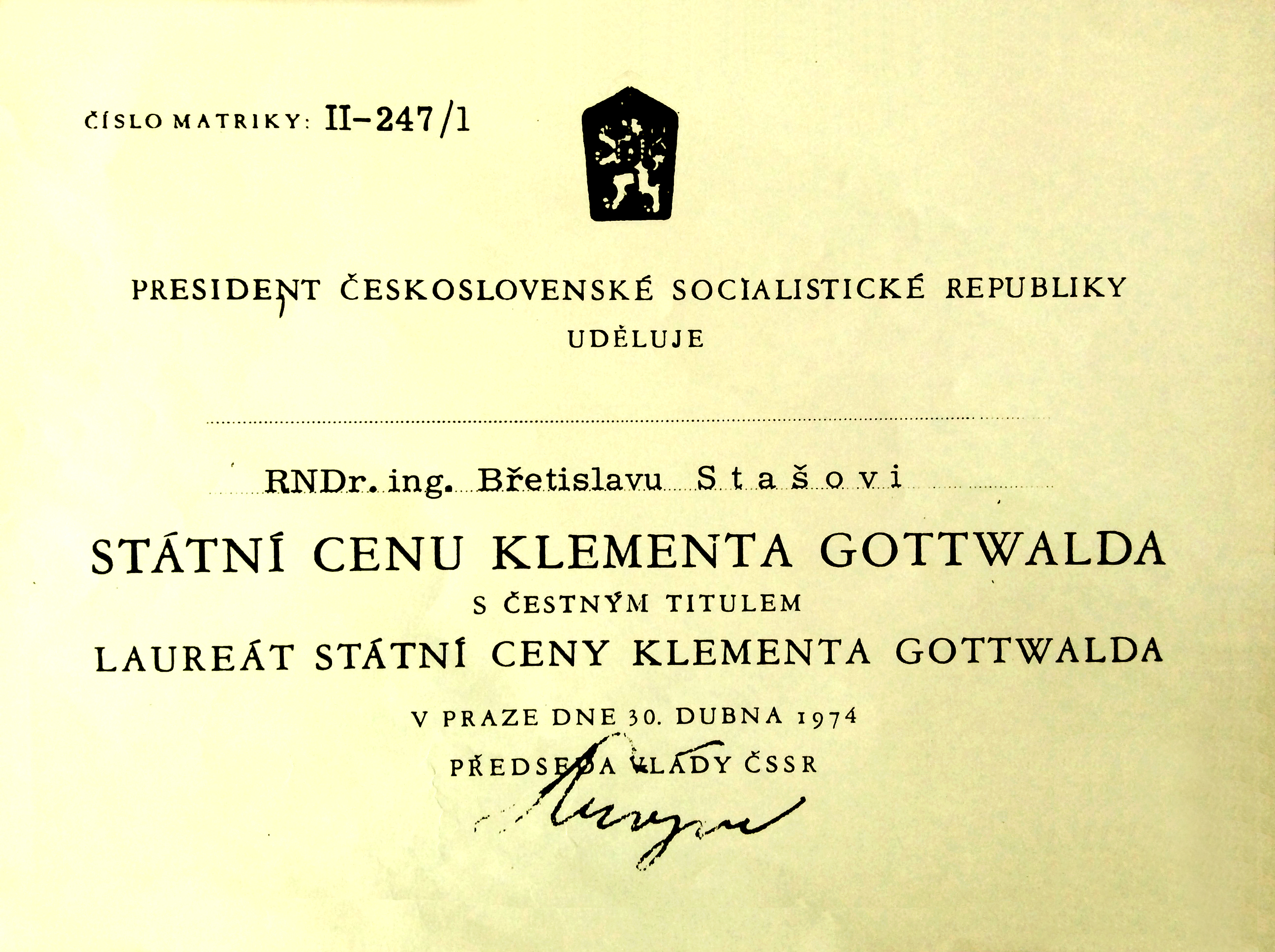 State Prize of the President of Czechoslovakia